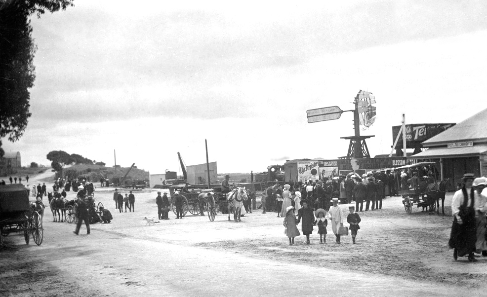 About 1905, train passengers and horse-drawn vehicles are in the precincts of Milang railway station, South Australia. Some people are assembled in a crowd; others are leaving the precincts, most likely having arrived on the train hauled by the South Australian Railways H class locomotive in the background.